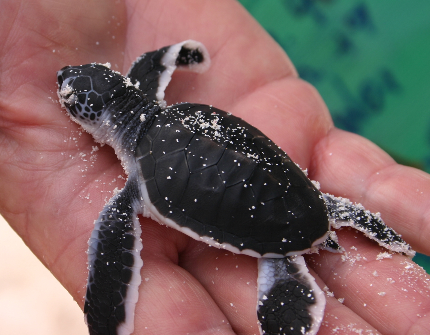 Green Turtle (Chelonia mydas) just hatched